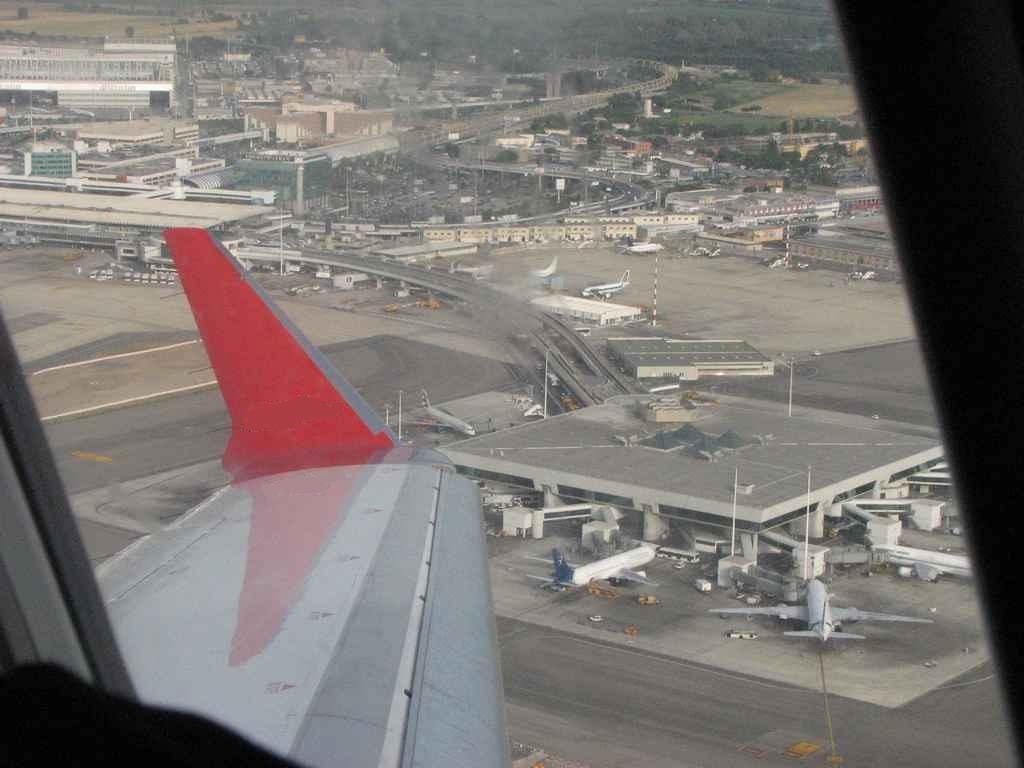 Terminal C of Fiumicino Airport, photo taken from air